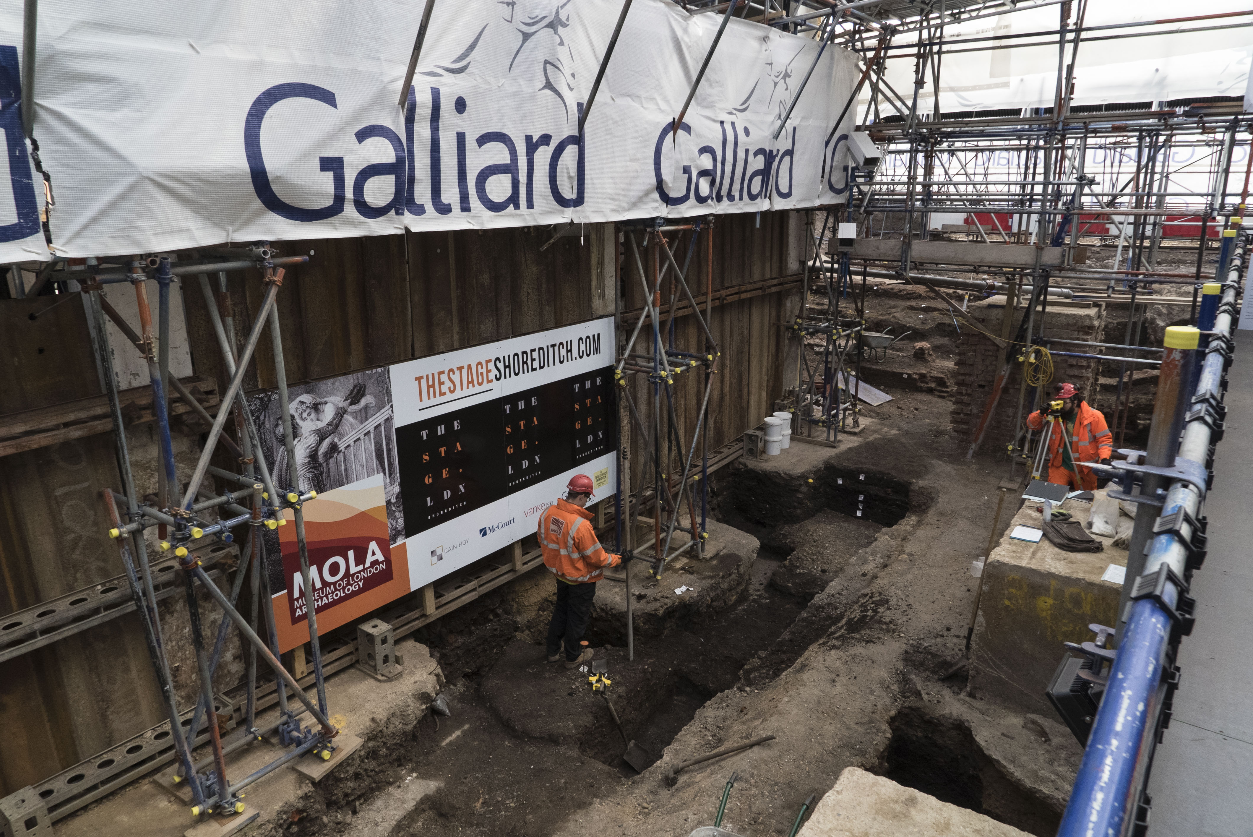 Archaeological dig at the site of The Curtain Elizabethan playhouse where Shakespeare performed